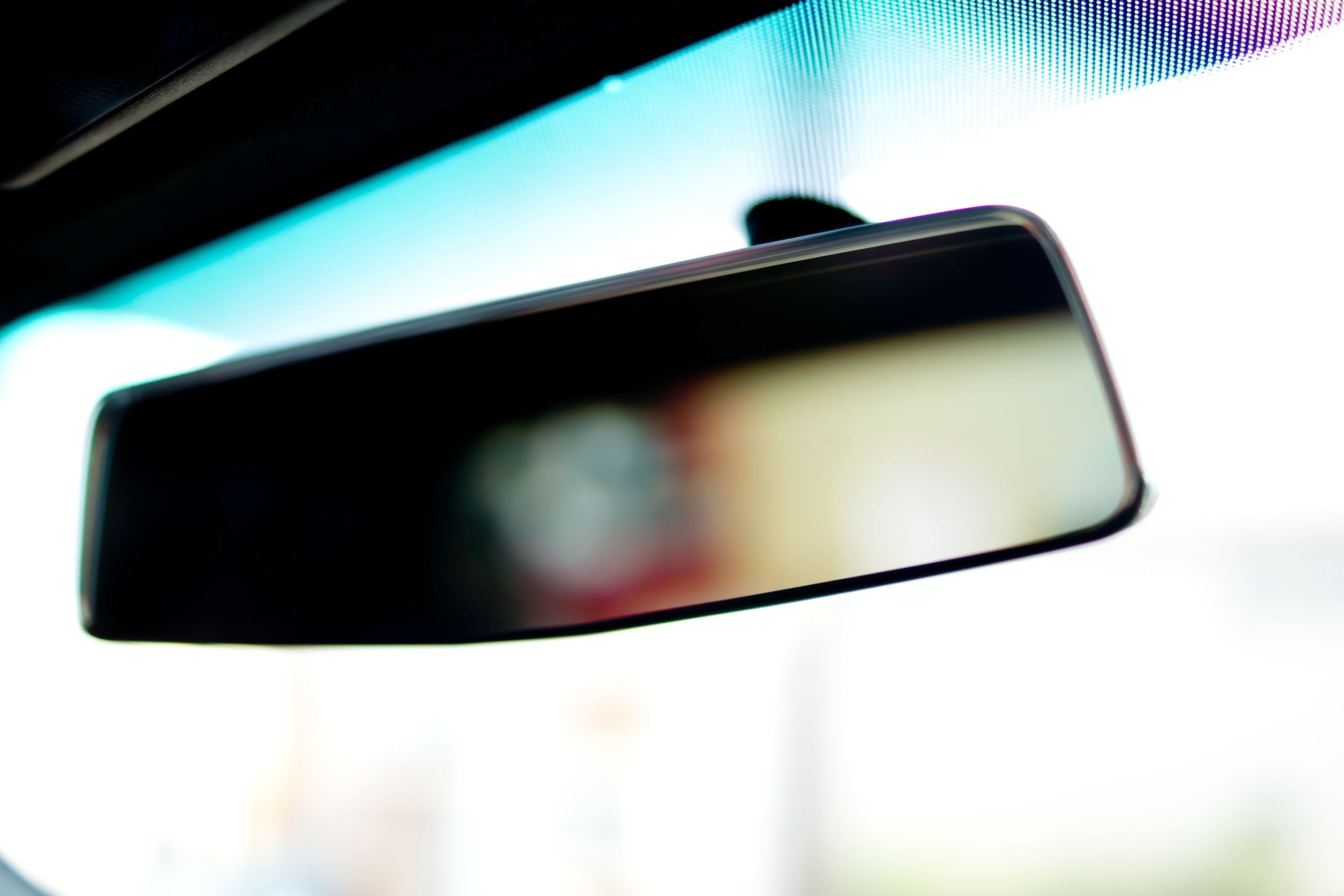 Rear-view mirror of Toyota 86 (as known as Toyota FT-86, Toyota GT86, Sion FR-S). GT grade.